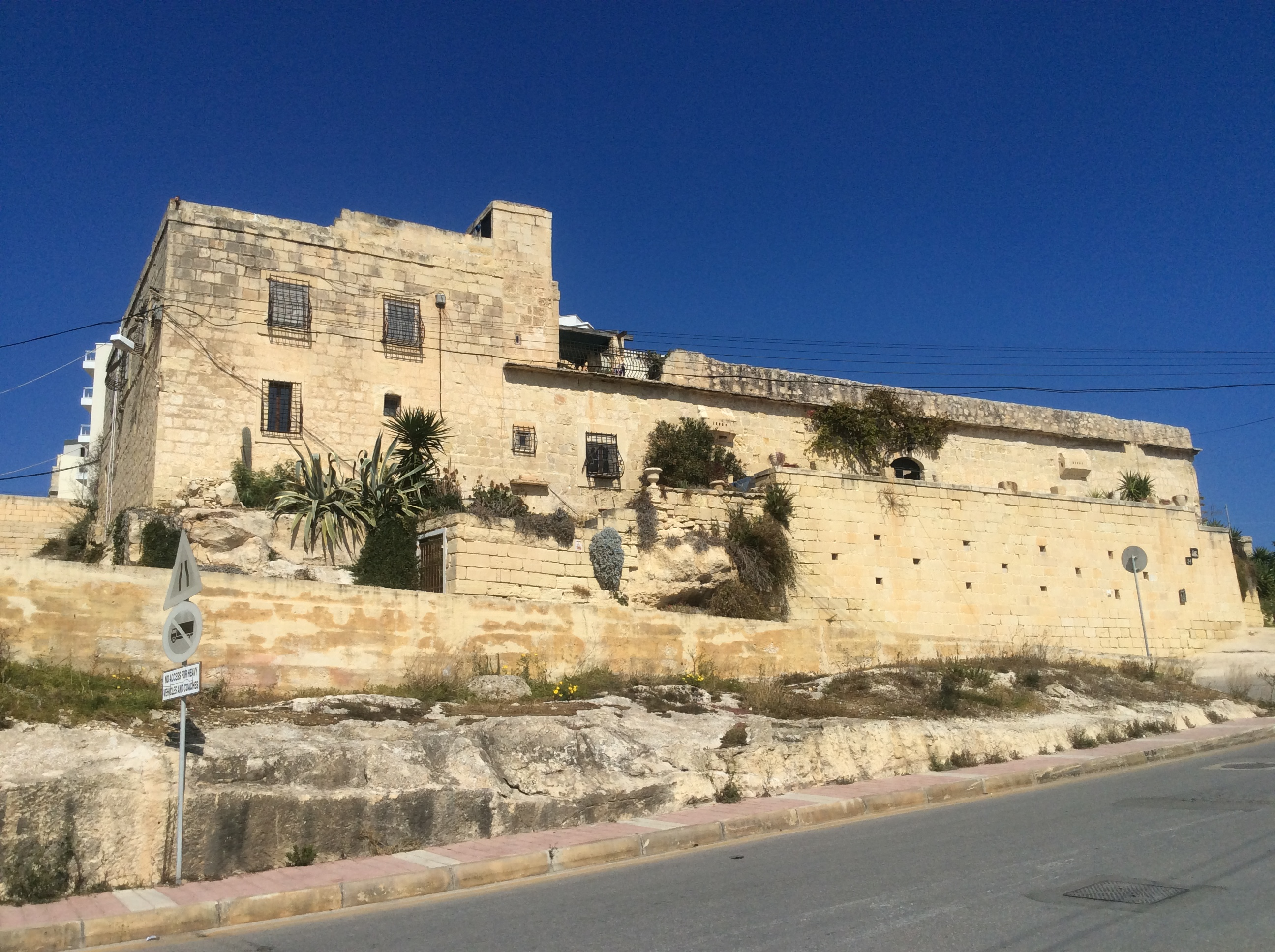 Casa Monita, Marsaskala, Malta